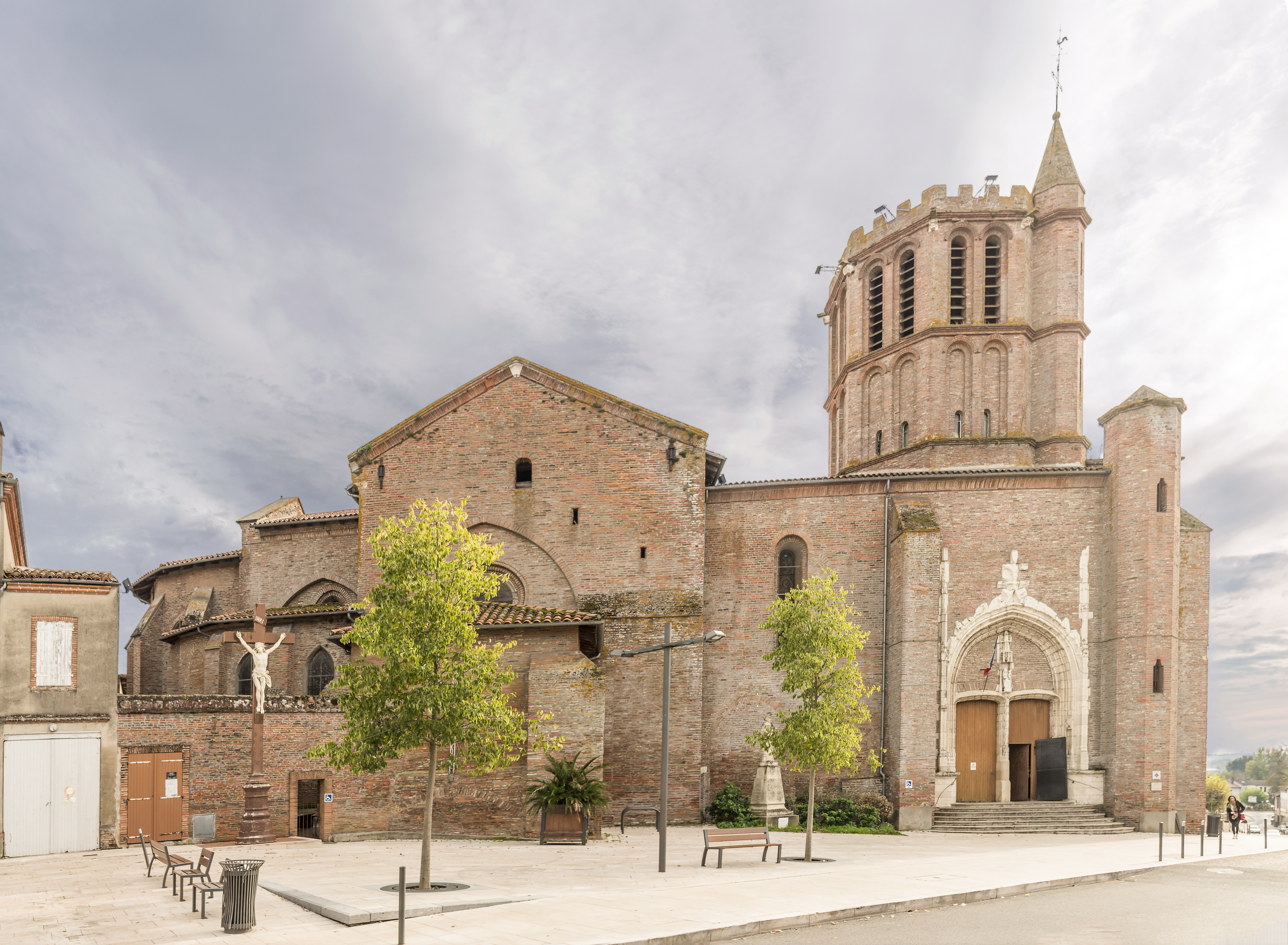 Castelsarrasin Tarn-et-Garonne, France - Église Saint-Sauveur - Facade on Place de la Raison.